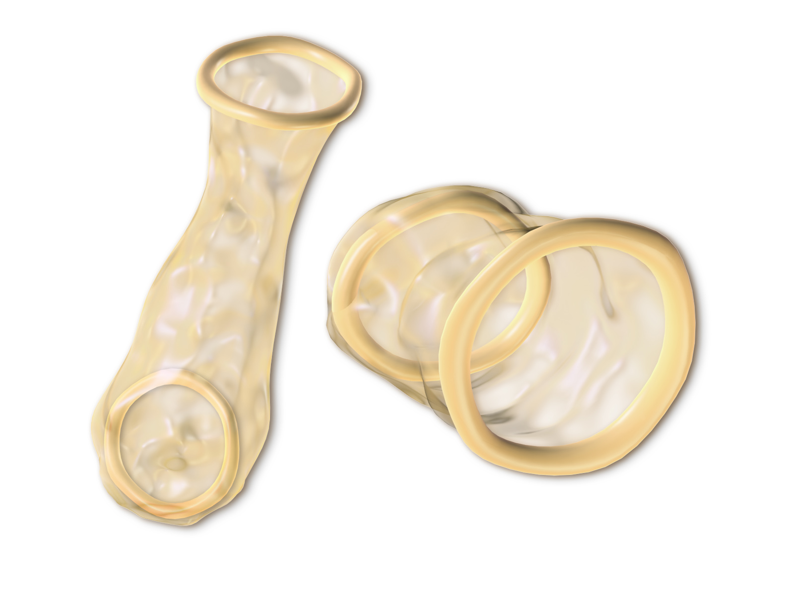 Illustration demonstrating a female condom.